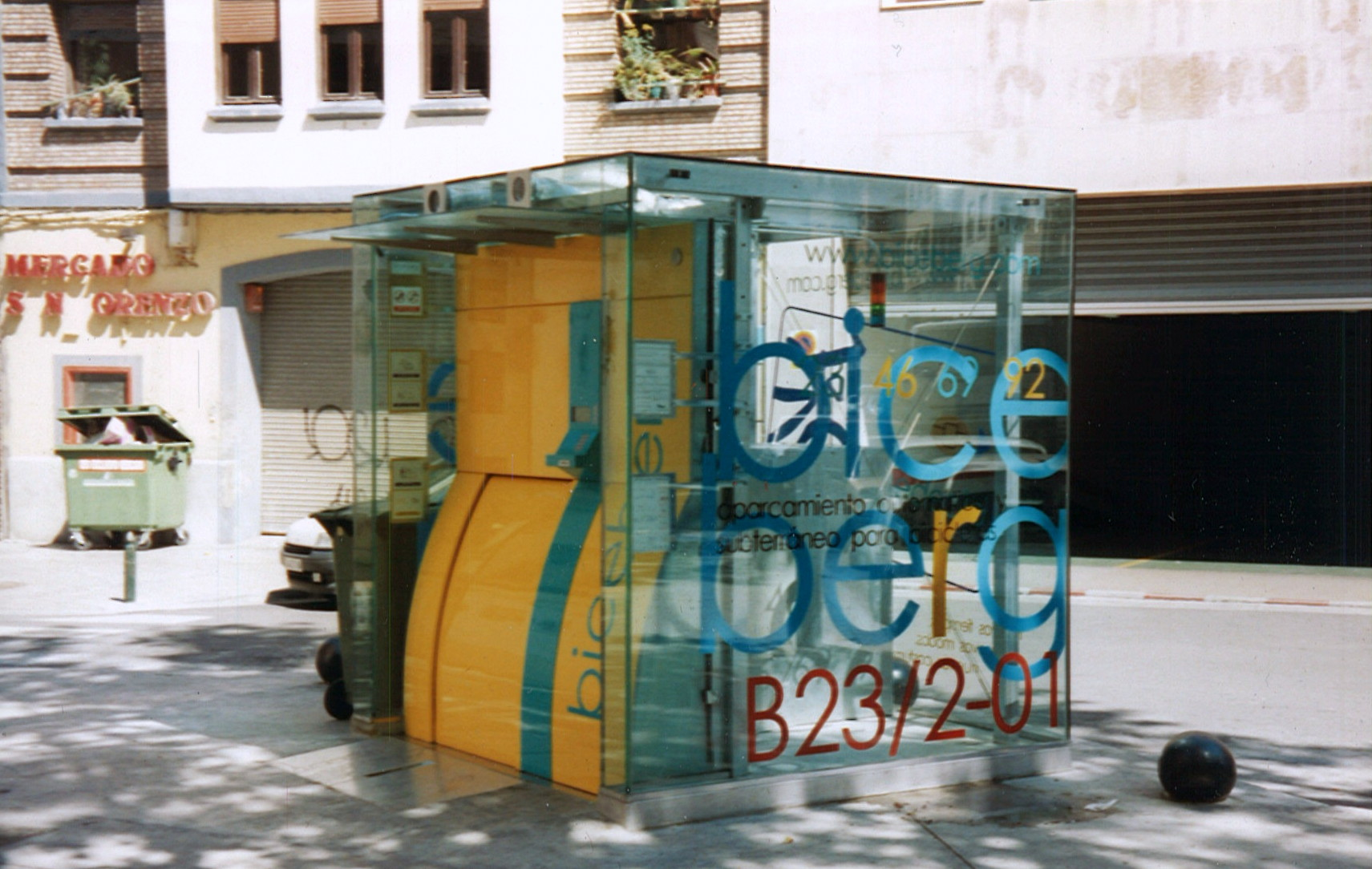 Biceberg is an automated bicyle parking system. The kiosk is above a large storage chamber which can house 46 bicycles. Situated in Plaza San Pedro Nolasco, Zaragoza. Further details at